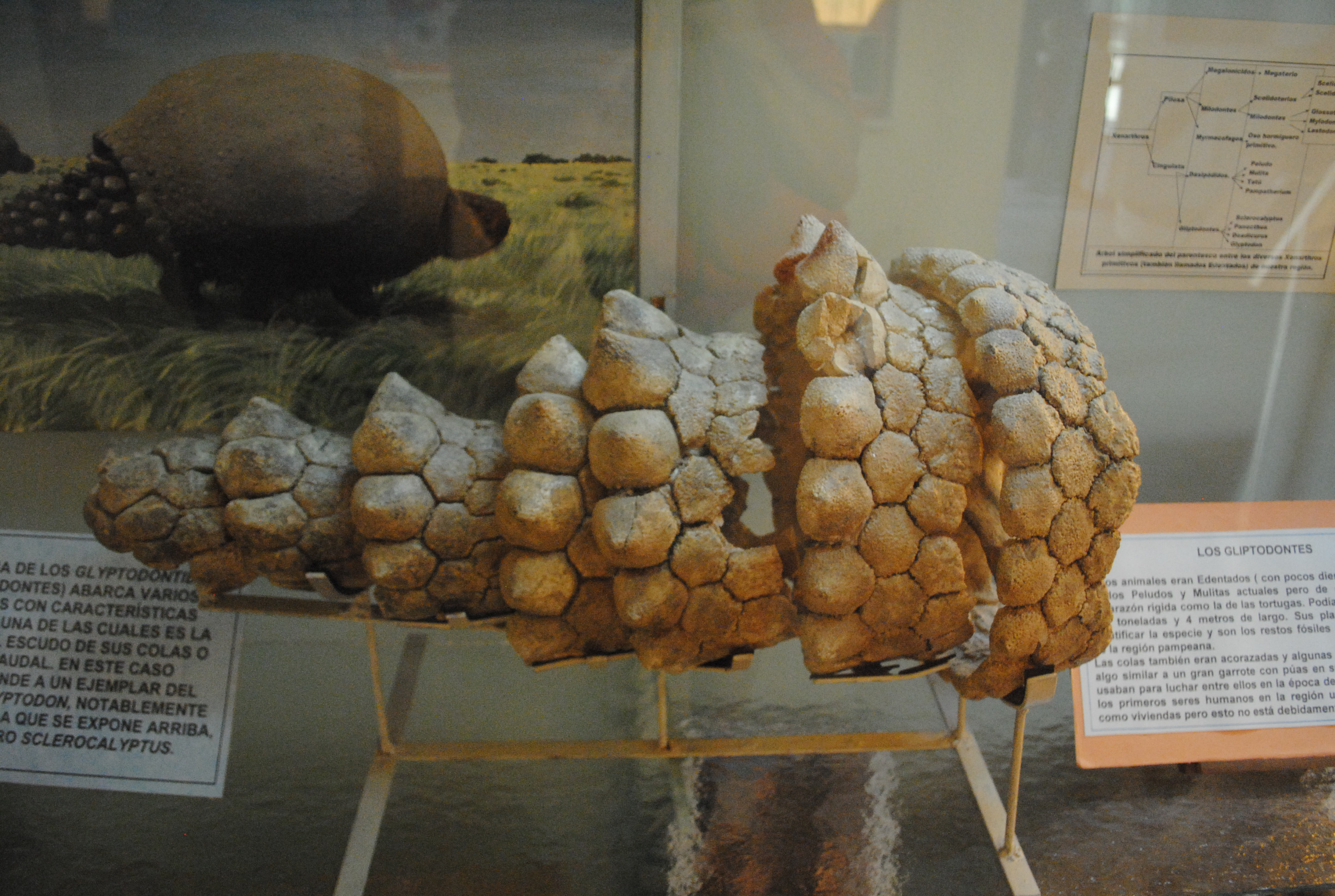 Glyptodon tail at Municipal Museum Punta Hermengo, Florentino Ameghino Park, Miramar, Argentina.